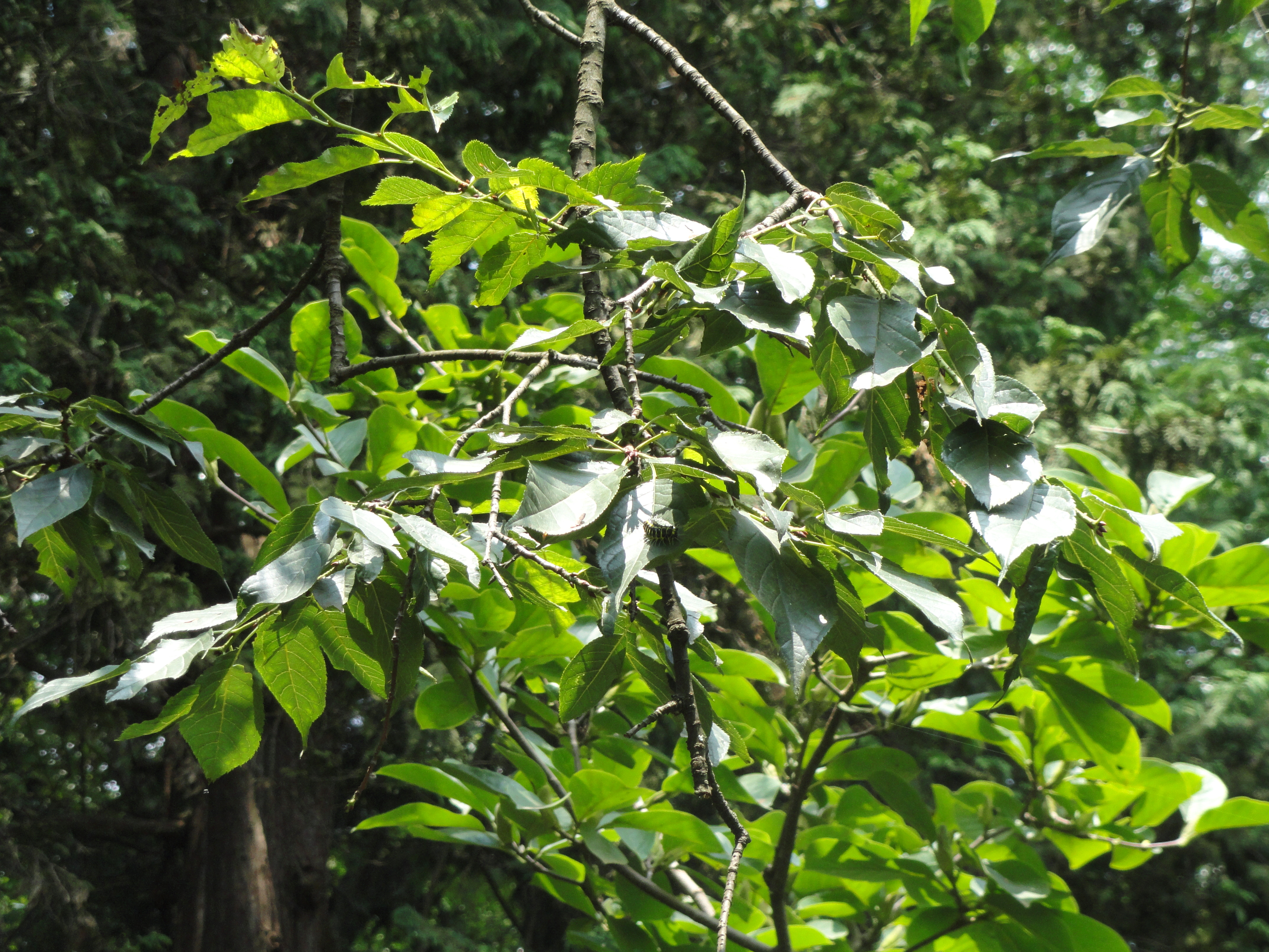 Plant specimen in the Kunming Botanical Garden, Kunming, Yunnan, China.